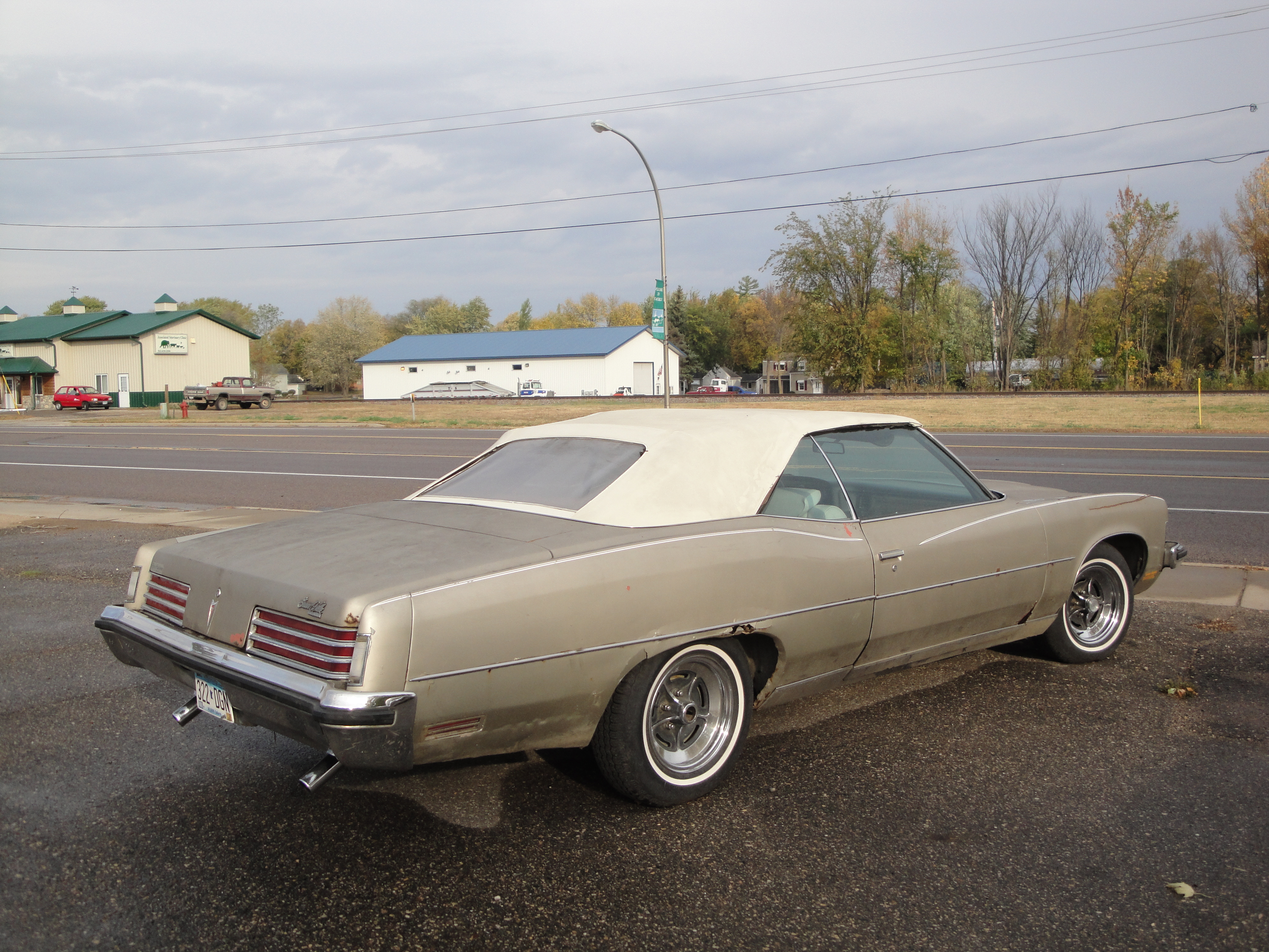 73 Pontiac Grand Ville